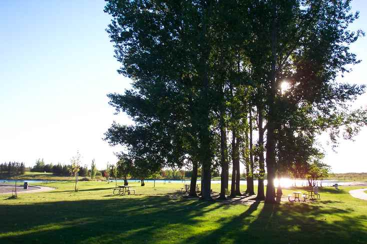 author:Van Whitehead source:own work date: photo that I took on Sept 11,2007. Permission:open content for release into the public domain. Photo of picnic area beside lake at Birds Hill Provincial Park, Manitoba.